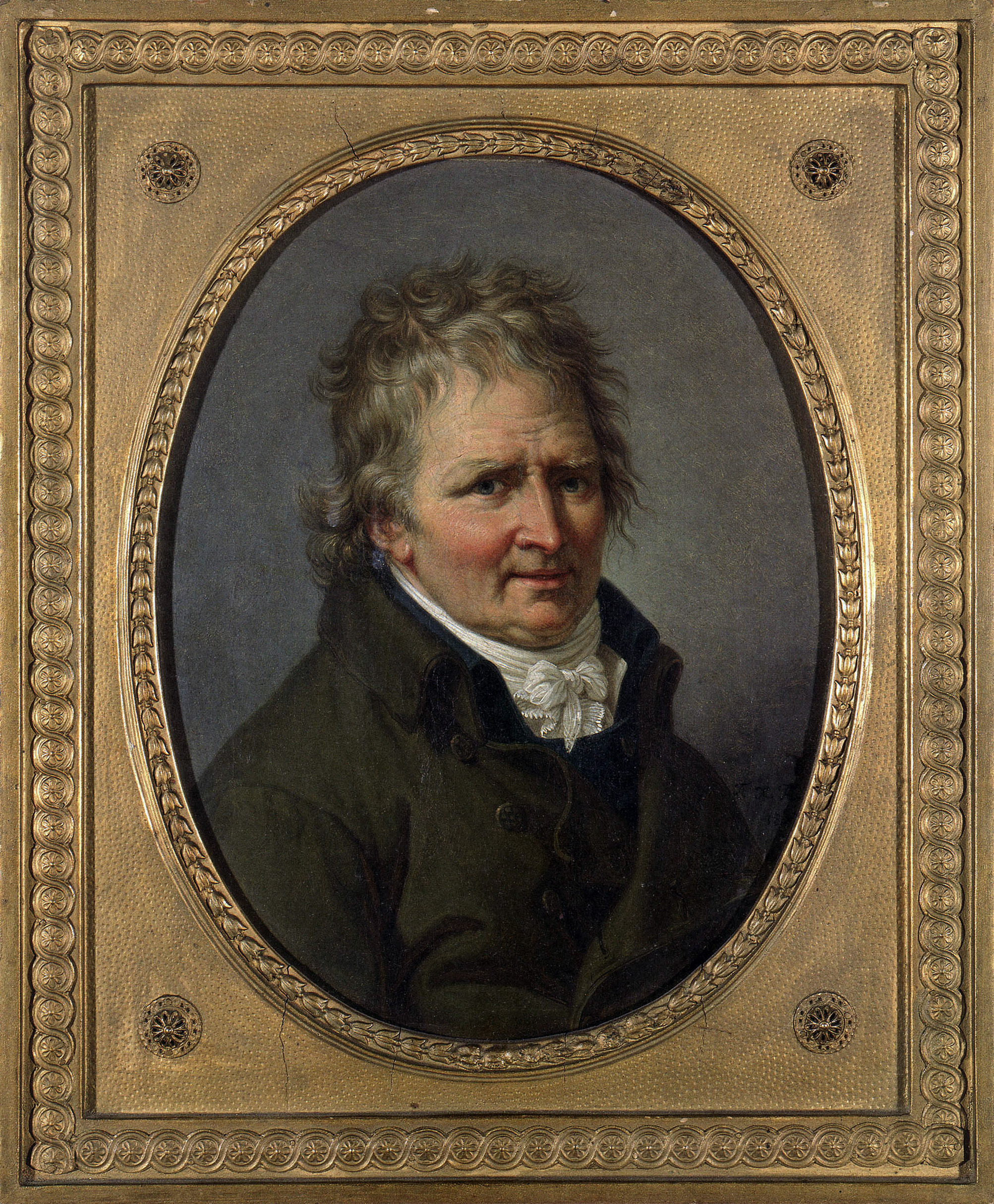 François-Xavier Fabre (1766-1837): Portrait of Jacob Philipp Hackert (1807). At the Casa di Goethe, Rome.